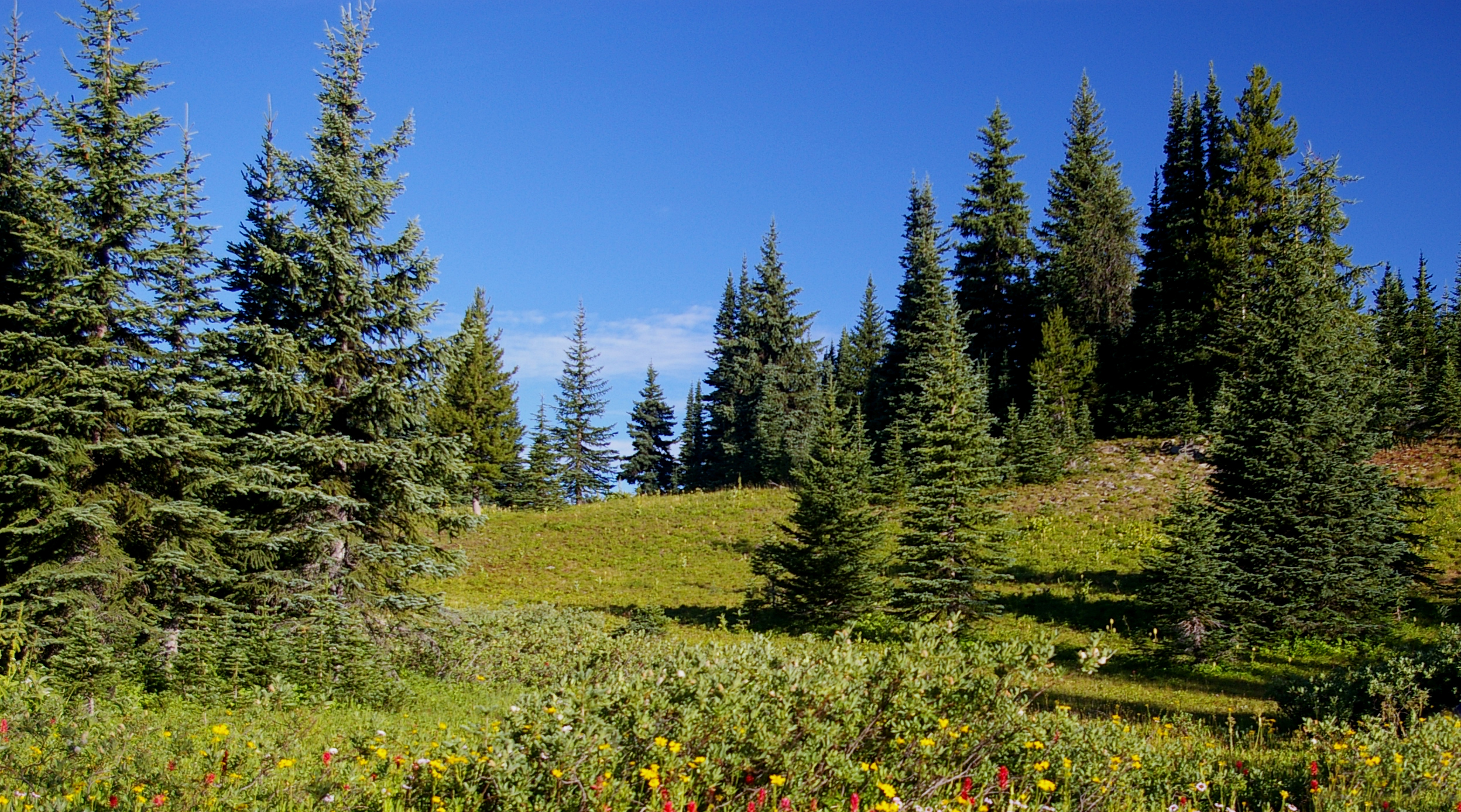 Mixed conifer forest dominated by Picea engelmannii and Pinus contorta, Manning Park, Hope, British Columbia